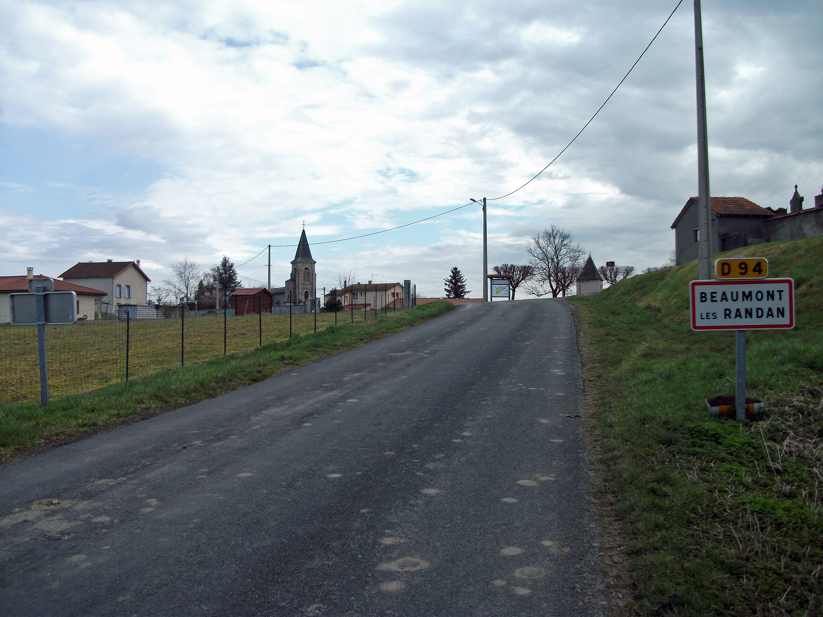 Entrance of Beaumont-lès-Randan by departmental road 94 [10424]